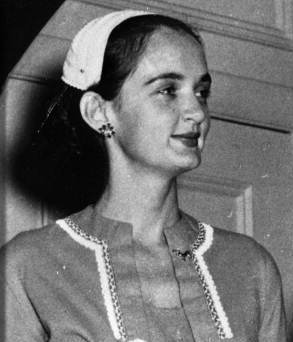 Roxcy Bolton with Mrs. Franklin D. Roosevelt. For three decades, Roxcy Bolton was Florida's leading women's rights activist.